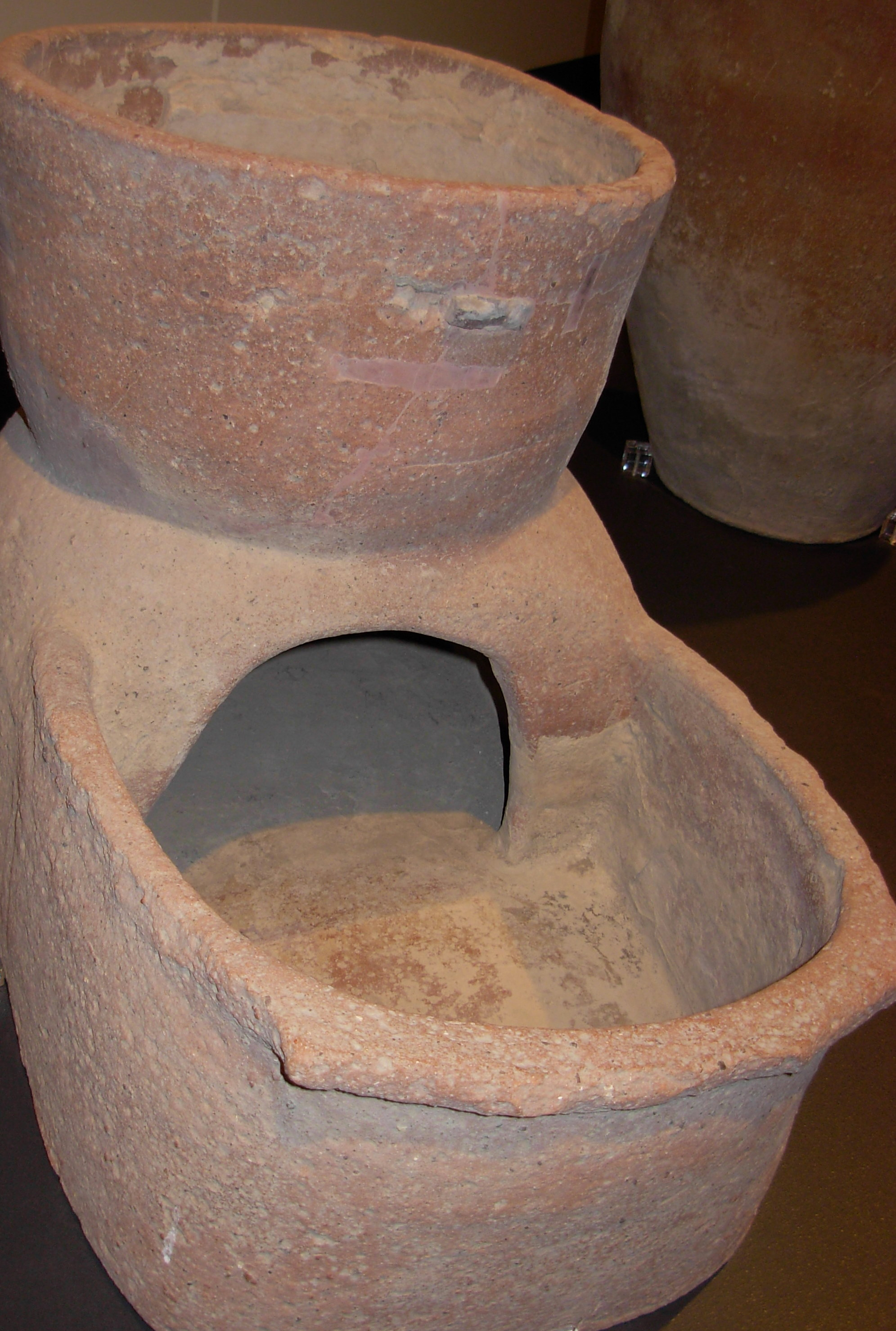 Terra cotta oven from Pompeii on display in the Science Museum of Minnesota